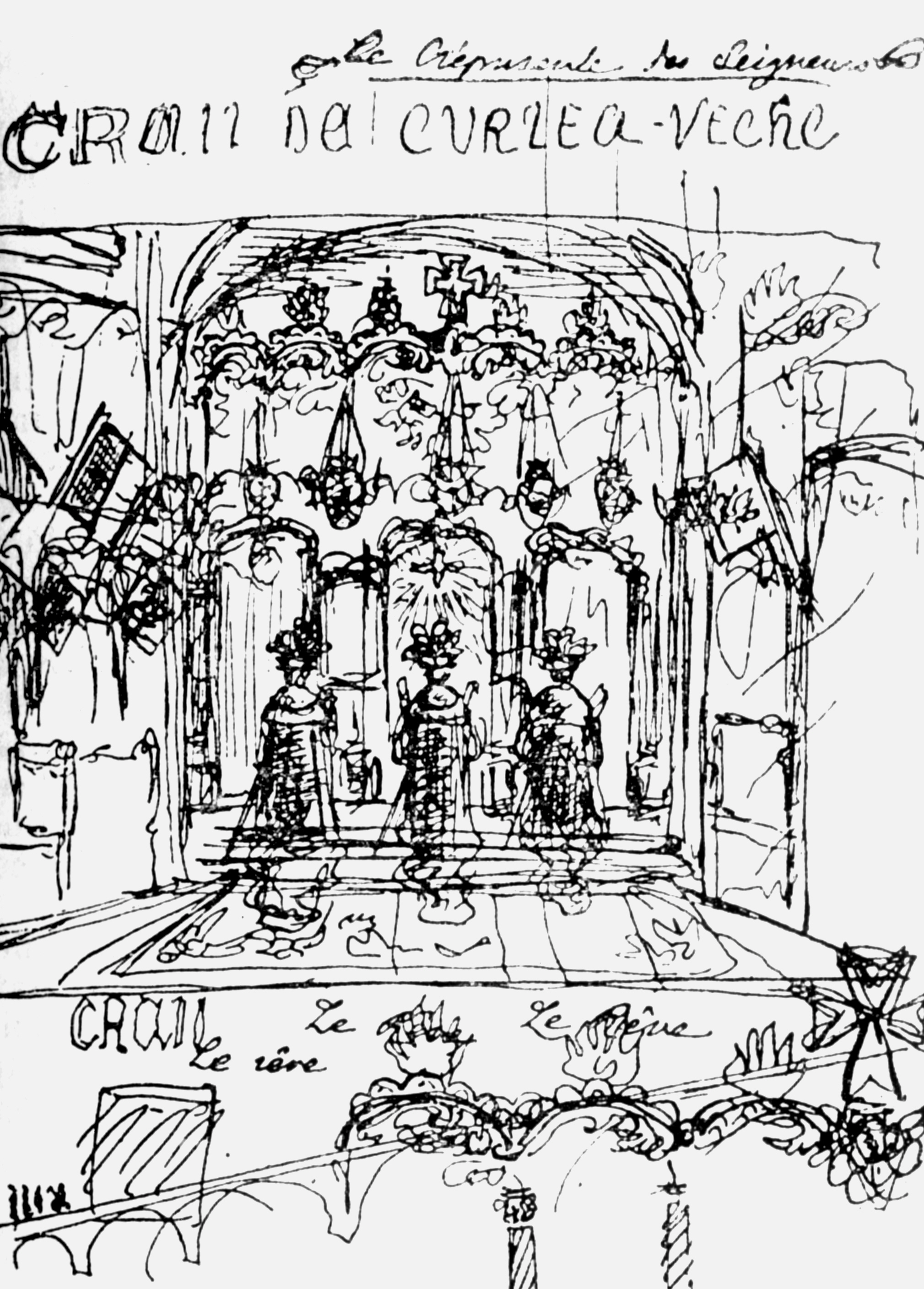 Drawing by the Romanian writer Mateiu Caragiale, designed as an illustration for his sole novel, Craii de Curtea-Veche